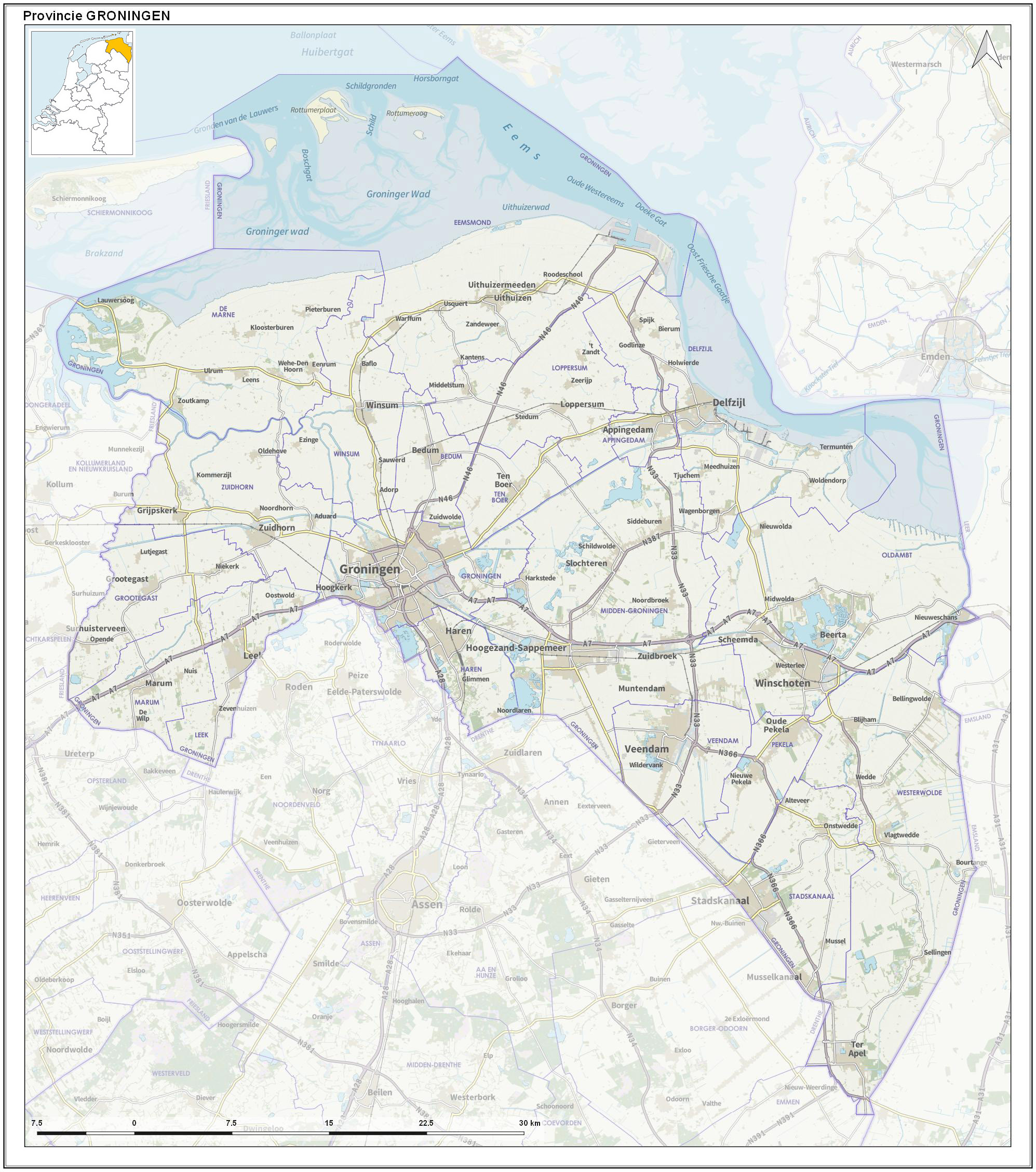 Toographic overview map of the Dutch Province of Groningen as of 2018. Compiled by Jan-Willem van Aalst using Dutch Governmental open data (CC-BY Kadaster) and OpenStreetMap data (CC-BY OpenStreetMap contributors).